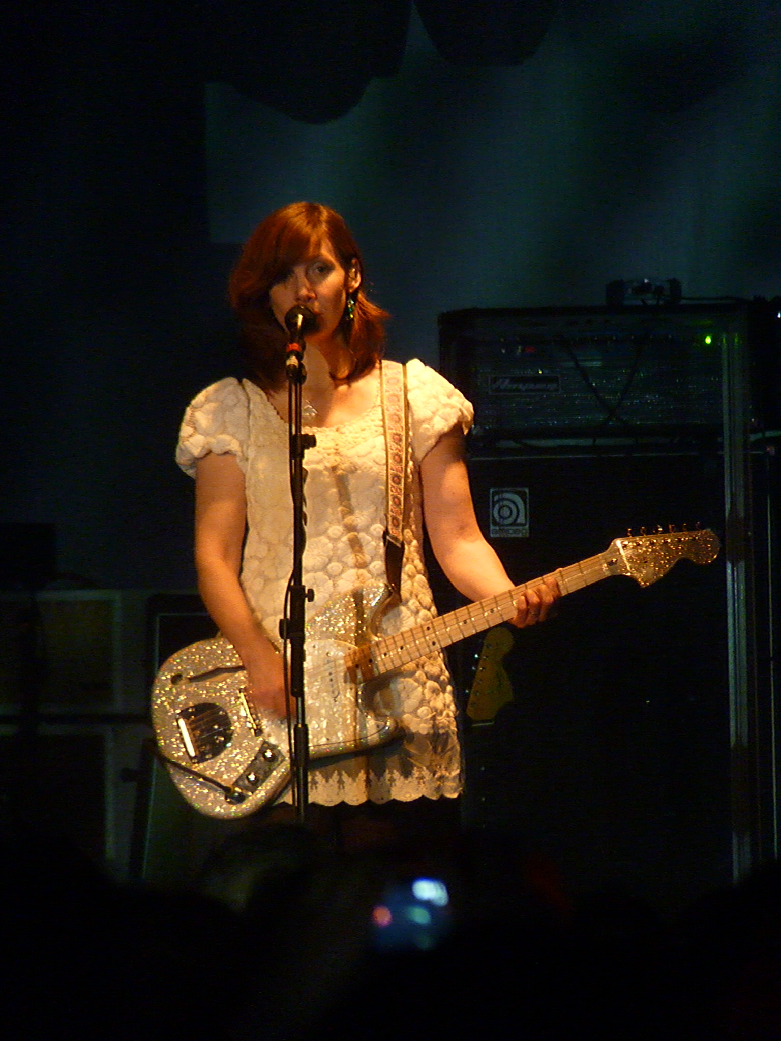 Bilinda Butcher performing with My Bloody Valentine at All Tomorrow's Parties (ATP) in Minehead, England, 2009.